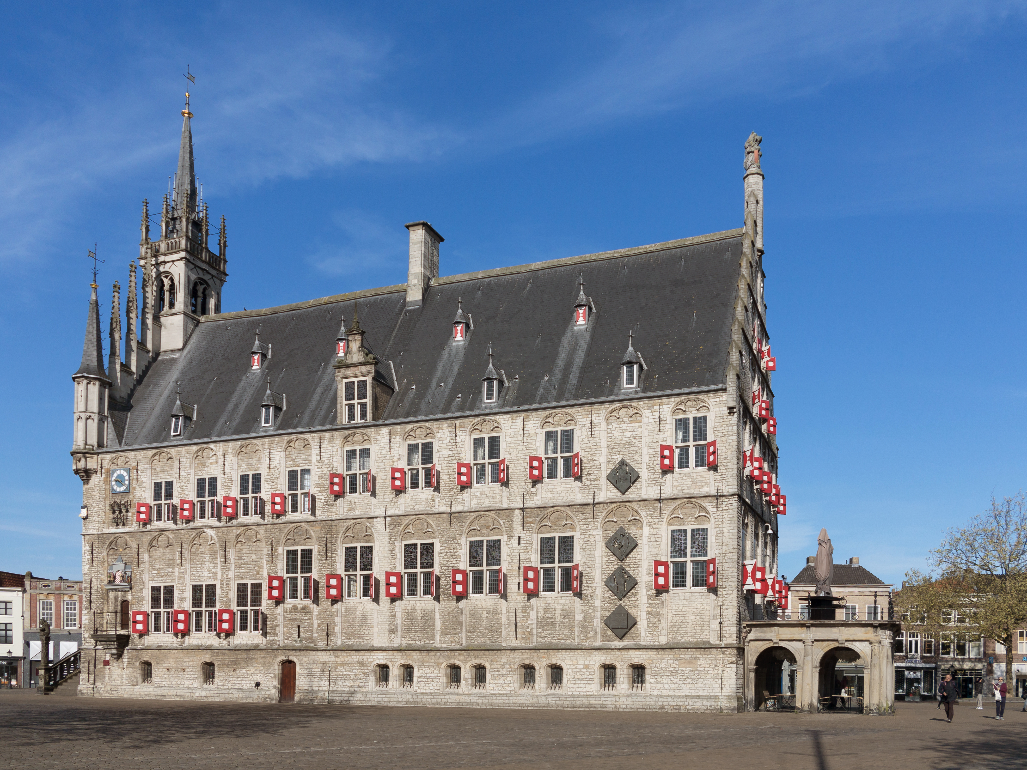 Gouda, former townhall